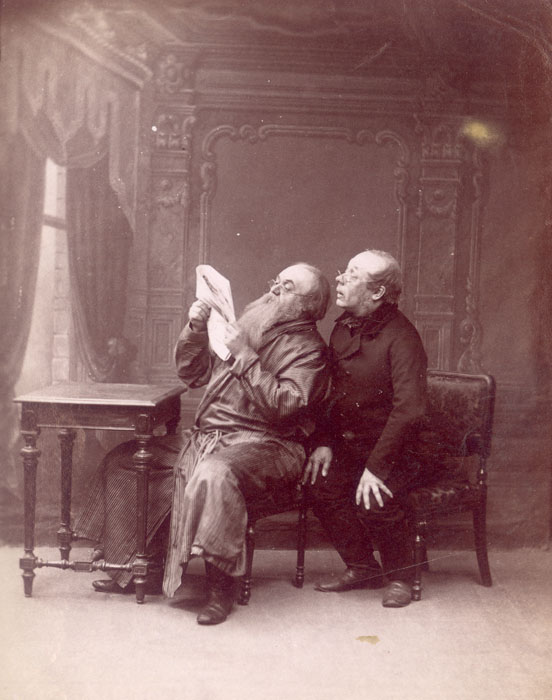 Rybakov (as Bolshov) & Maksheev (as Rispolozhensky) in Ostrovsky's "Svoy ludy - sochtemsya" (It's a Family Affair, or The Bankrupt) in Maly theater (1892)